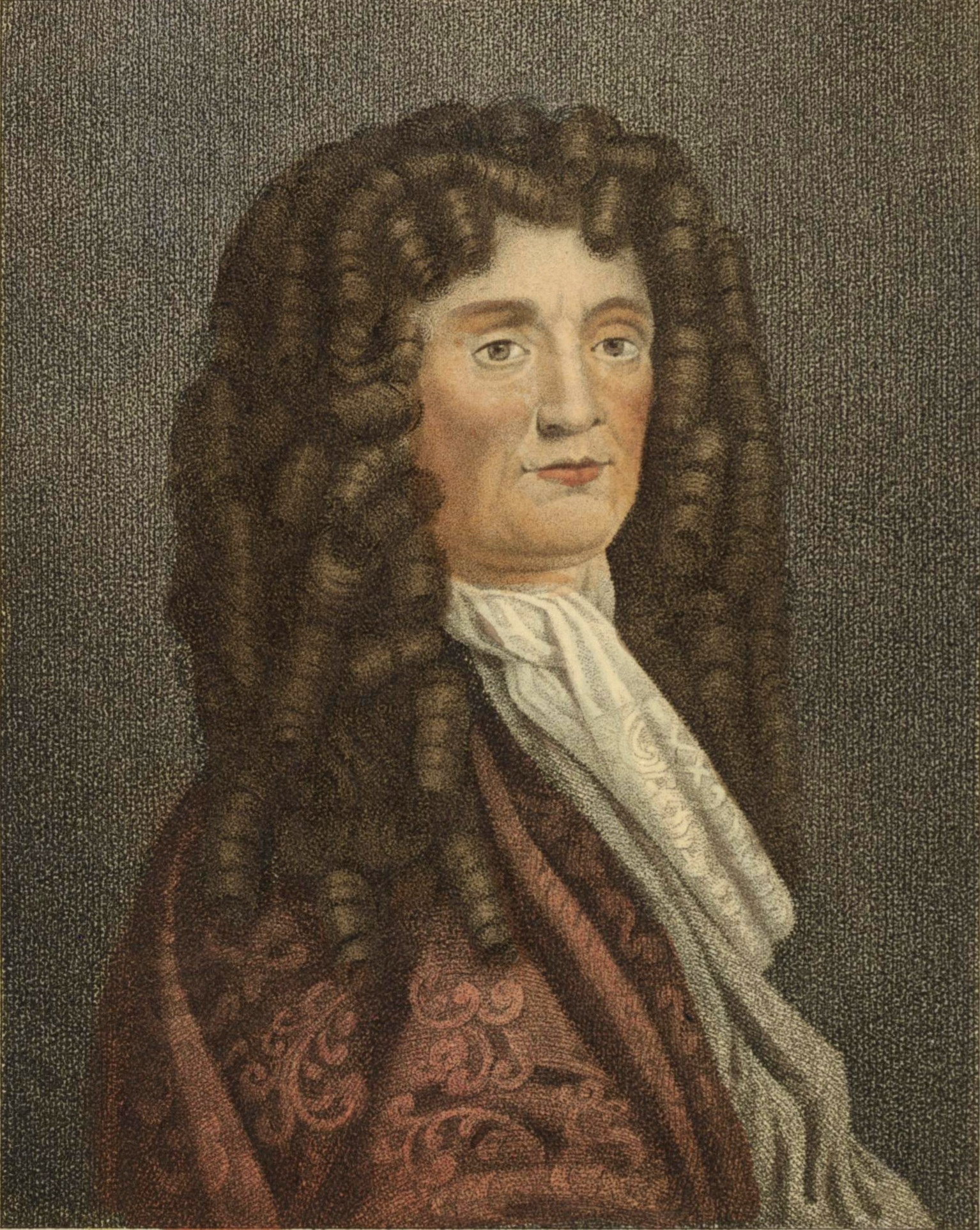 Depicted person: Francesco Corbetta